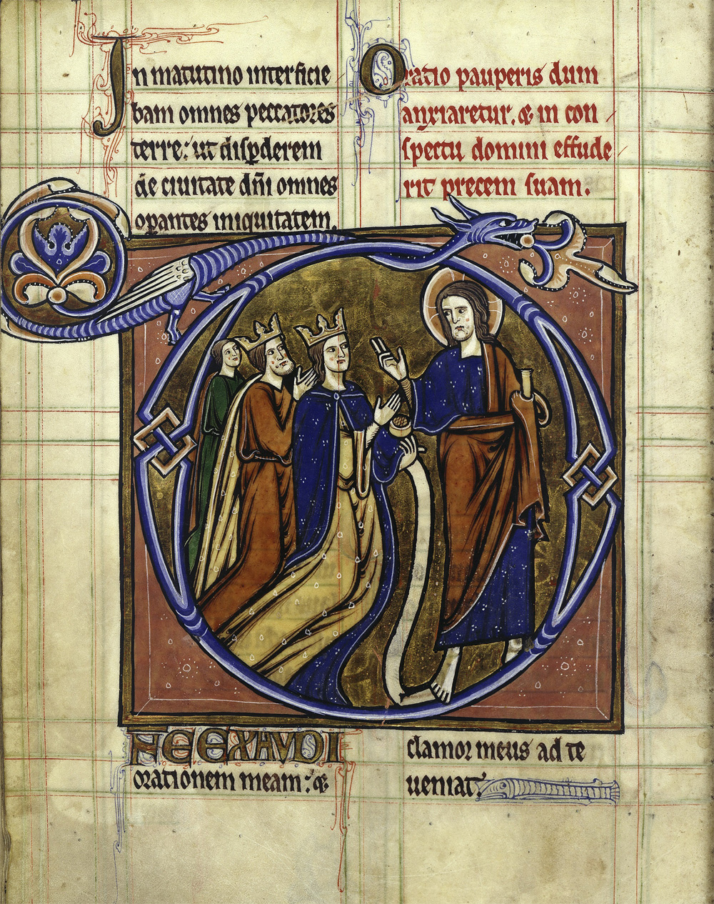 The psalter of Margrete Skulesdatter. Kupferstichkabinett der Staatlichen Museen zur Berlin, MS 78 A 8, bl. 93v.